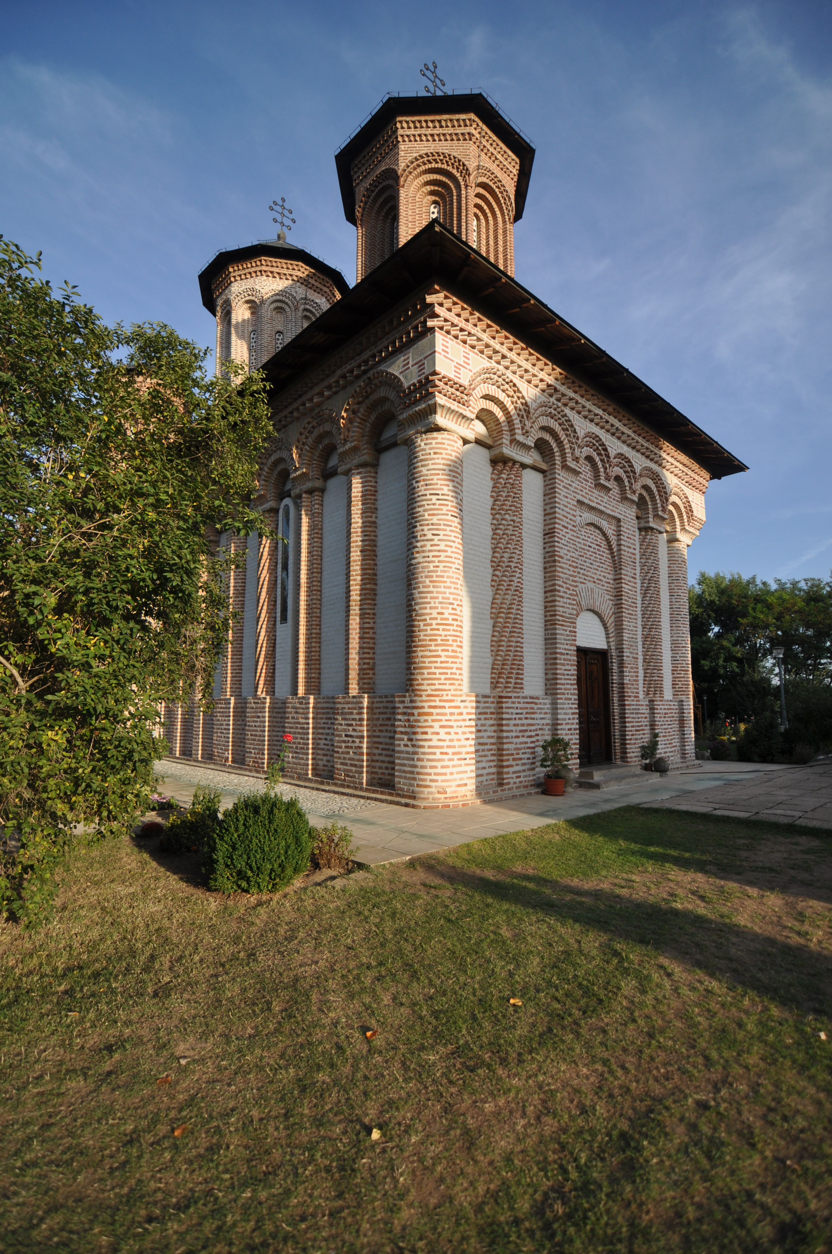 Snagov Monastery Biserica "Intrarea Maicii Domnului în Biserică" "The Presentation" Church [Entrance of the Theotokos into the Temple] construction from 1517, iconography from1563, other interventions 1815, 1904, 1941, 1953, 1966...